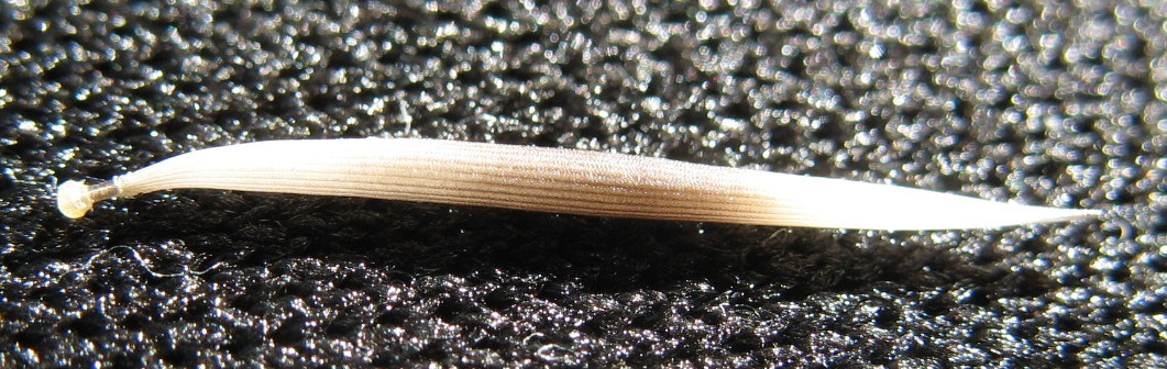 Atelerix albiventris spine.